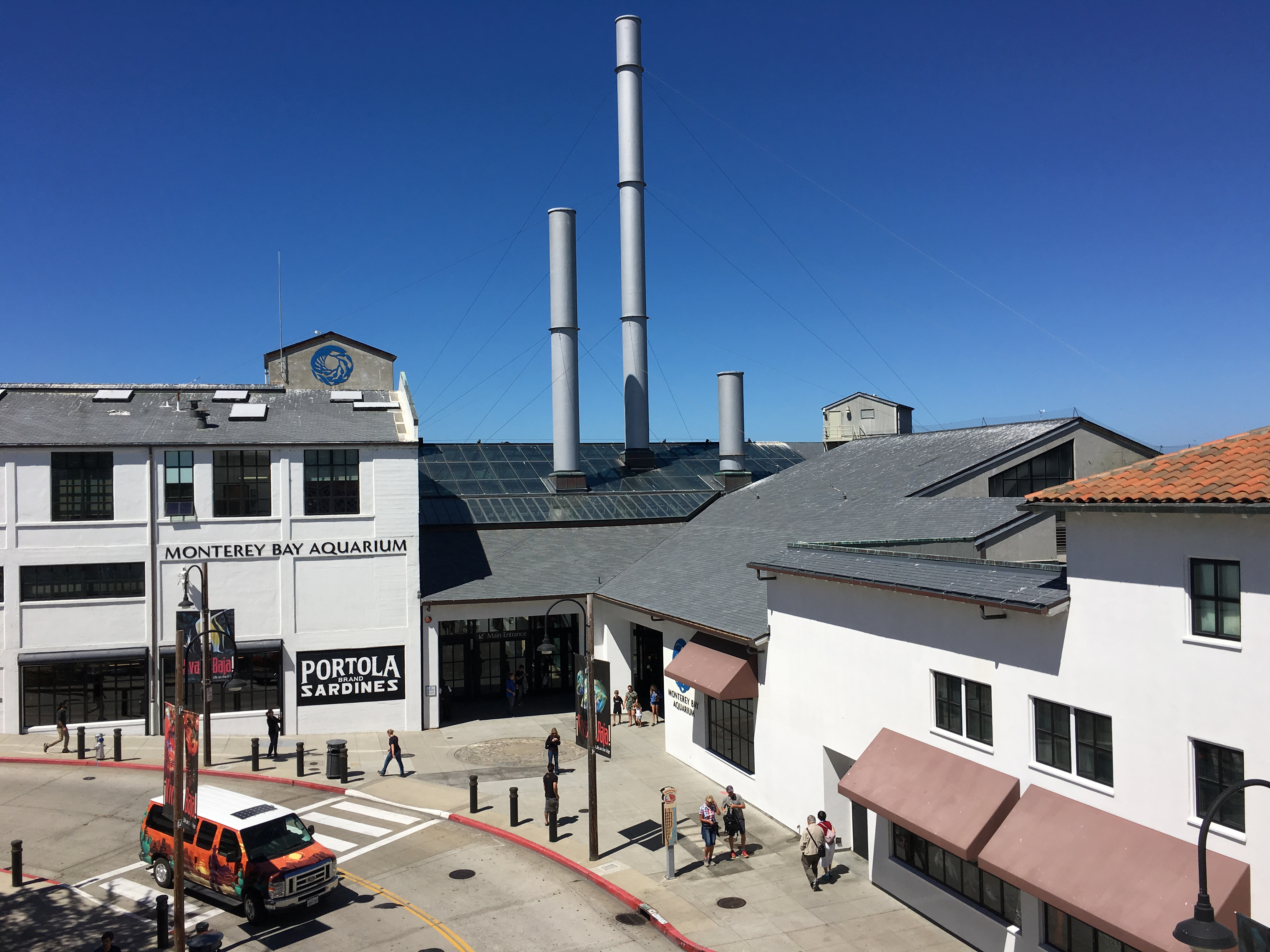 Exterior view of the Monterey Bay Aquarium's main entrance in August 2016 from an elevated bridge over Cannery Row. Smokestacks on the Aquarium's roof are a tribute to the former Hovden Cannery that it replaced.